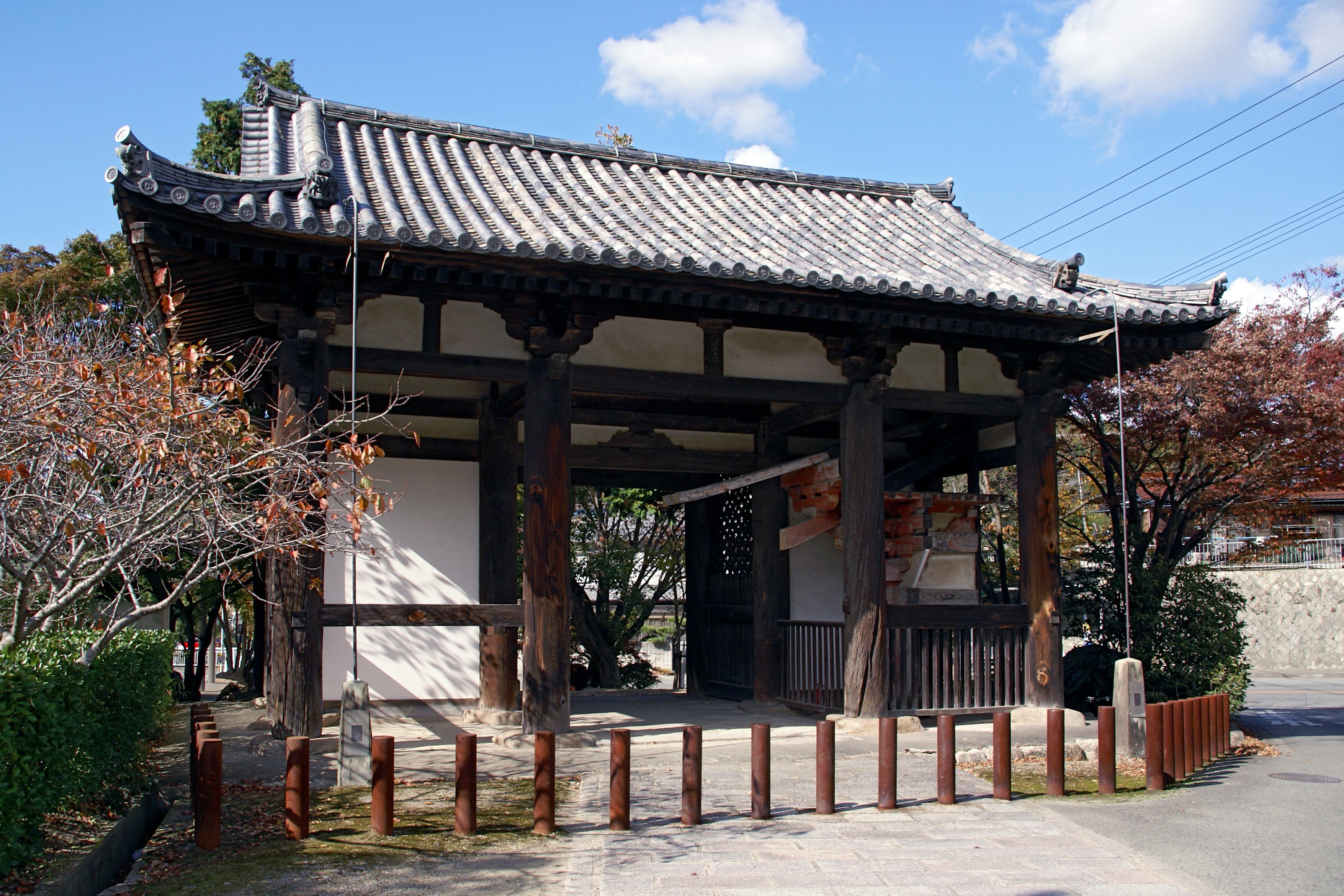 Taisanji in Kobe, Hyogo prefecture, Japan